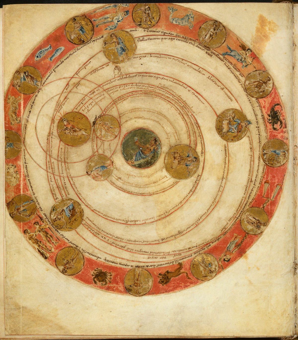 Planetary configuration for 18 March 816. Positions believed to be based on computation for the Sun and Moon and observations for the other five planets. (S. C. Mccluskey, Astronomies and Cultures in Early Medieval Europe, p. 141).